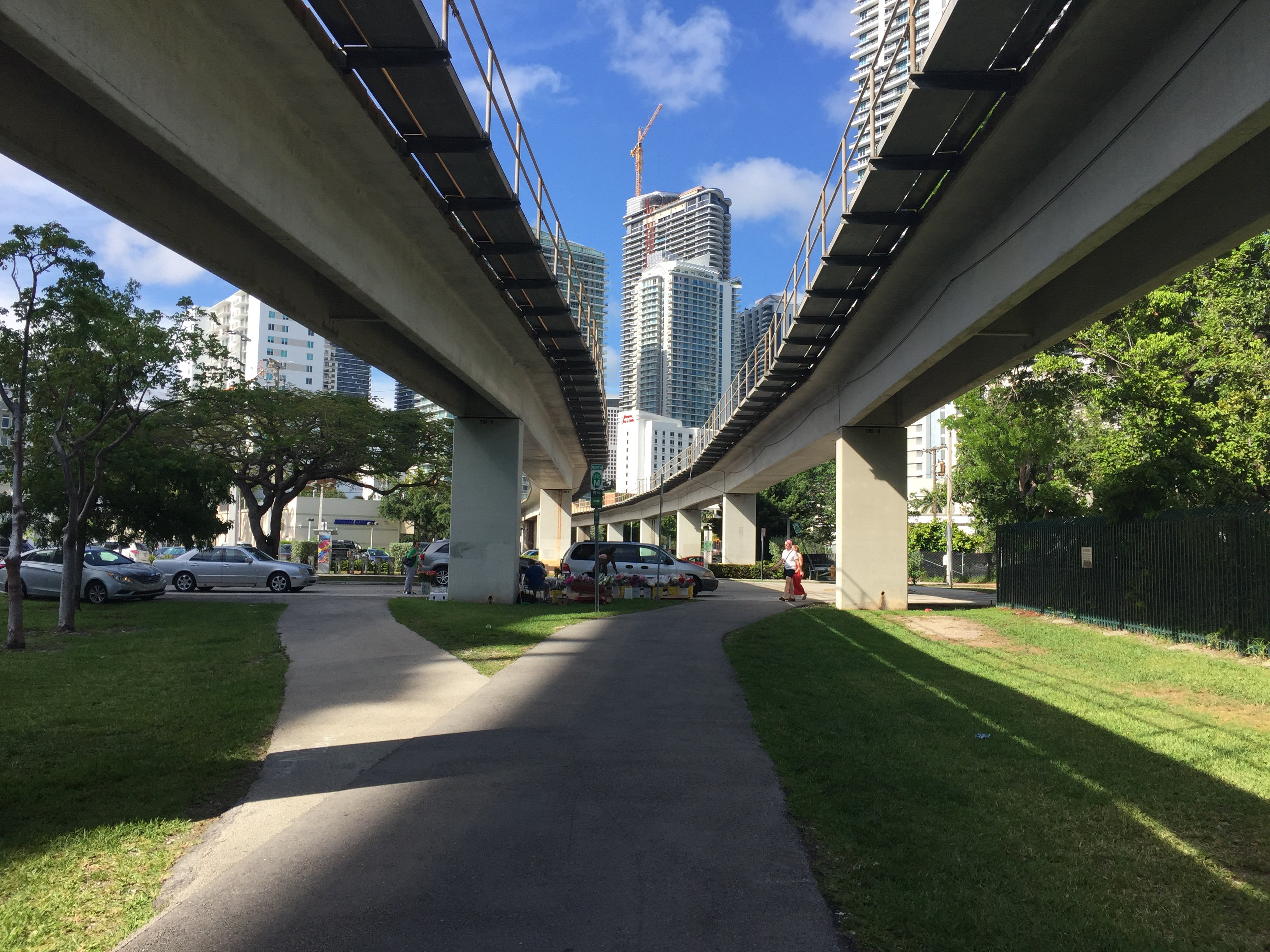 The M-Path goes along or underneath the Metro line (and a busway further south) in southern Miami. It is part of the East Coast Greenway hiking/biking trail.